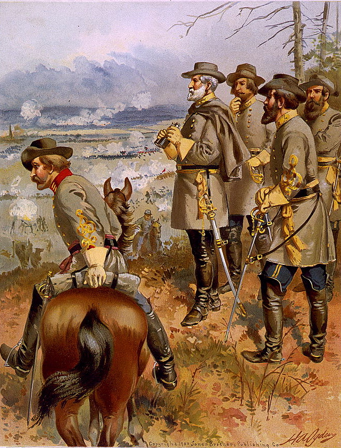 Gen. Robt. E. Lee at Fredericksburg, Dec. 13, 1862. Lithograph by Jones Brothers Publishing Co., 1900.